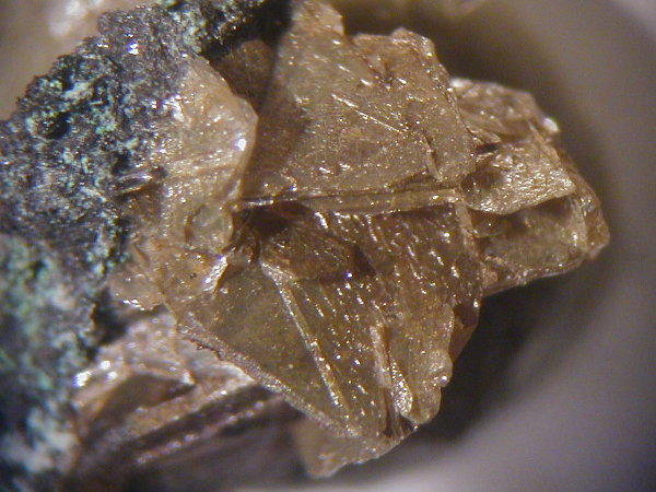 Abhurite (Picture size 5 mm) Locality: Shipwreck "Hydra", South coast of Norway Brownish tabular crystals of abhurite. Abhurite is only known as corrosion product of tin artefacts. Collection and photo Thomas Witzke.